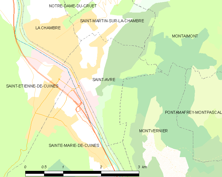 Map of French municipality